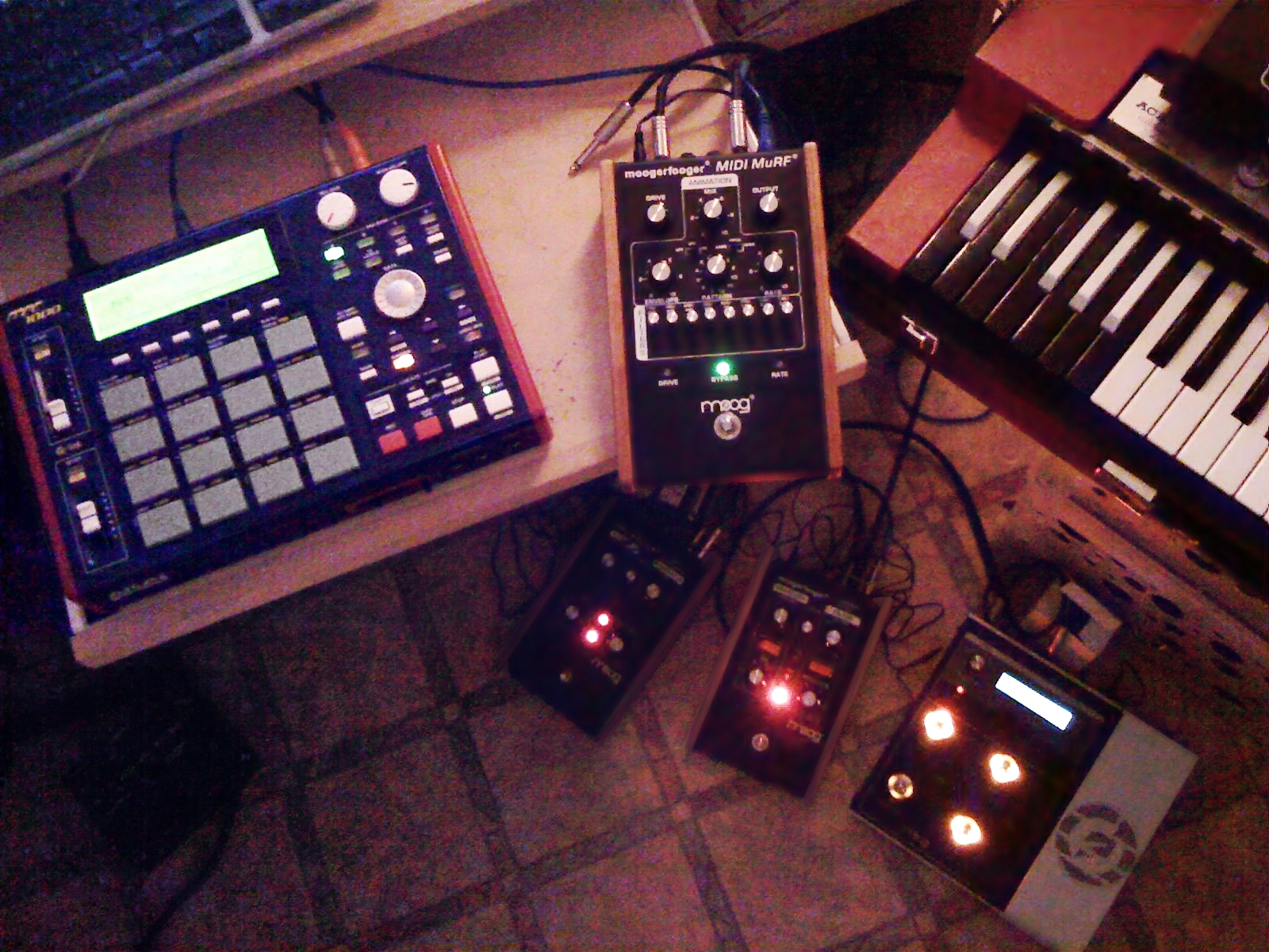 Akai MPC1000 Moogerfoogers: MF-105M MIDI MuRF MF-102 Ring Modulator MF-101 Lowpass Filter MP-201 Multi-Pedal Ace Tone TOP-1